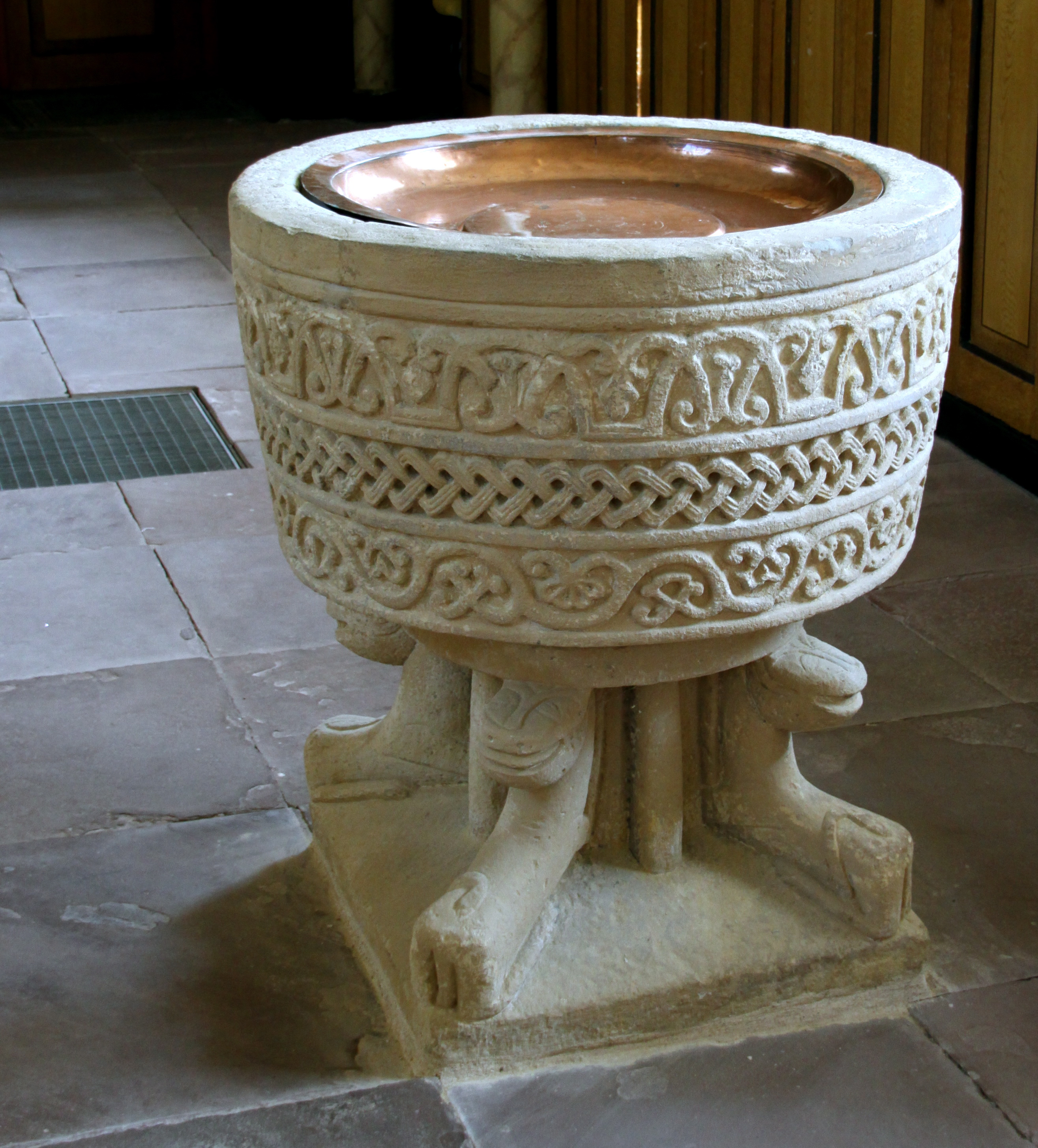 Baptismal font, Suurhusen church